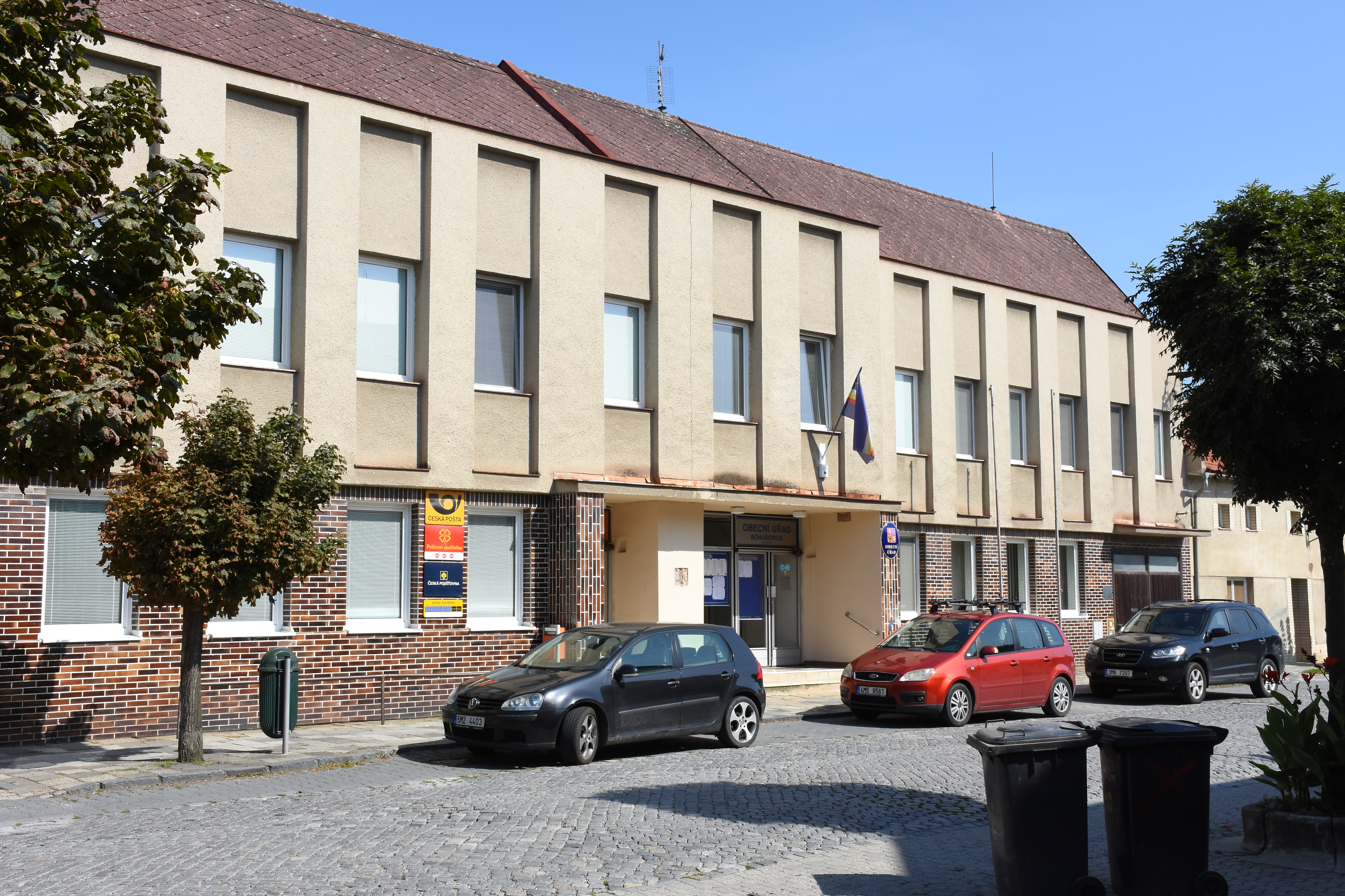 Bohuňovice, Olomouc District, Czech Republic.